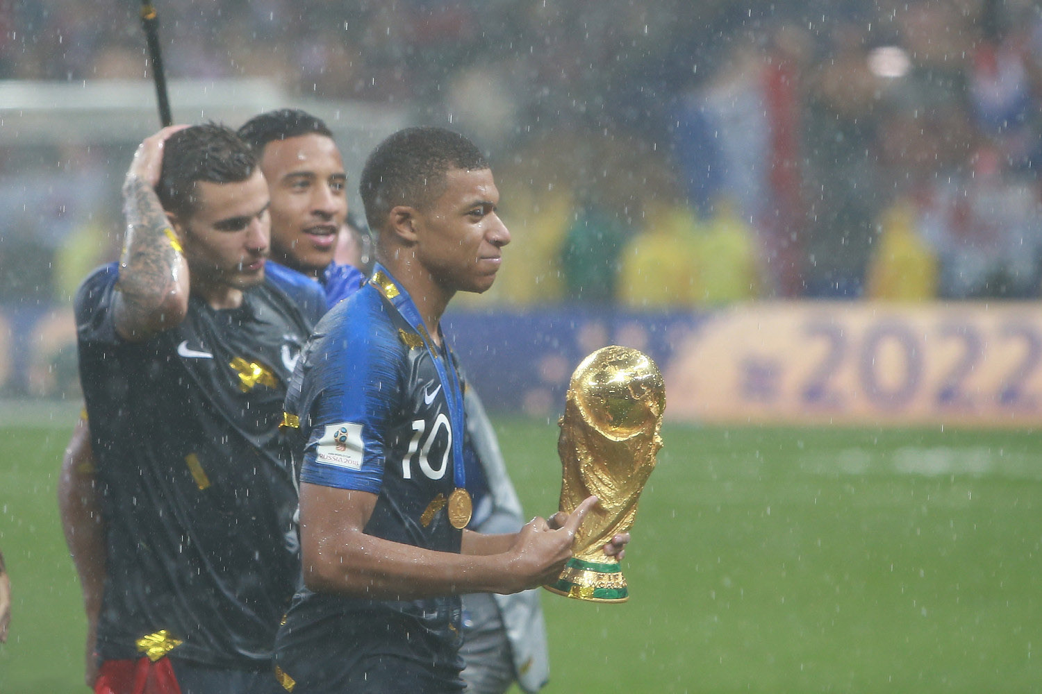 Kylian Mbappé with the 2018 Soccer World Cup trophy